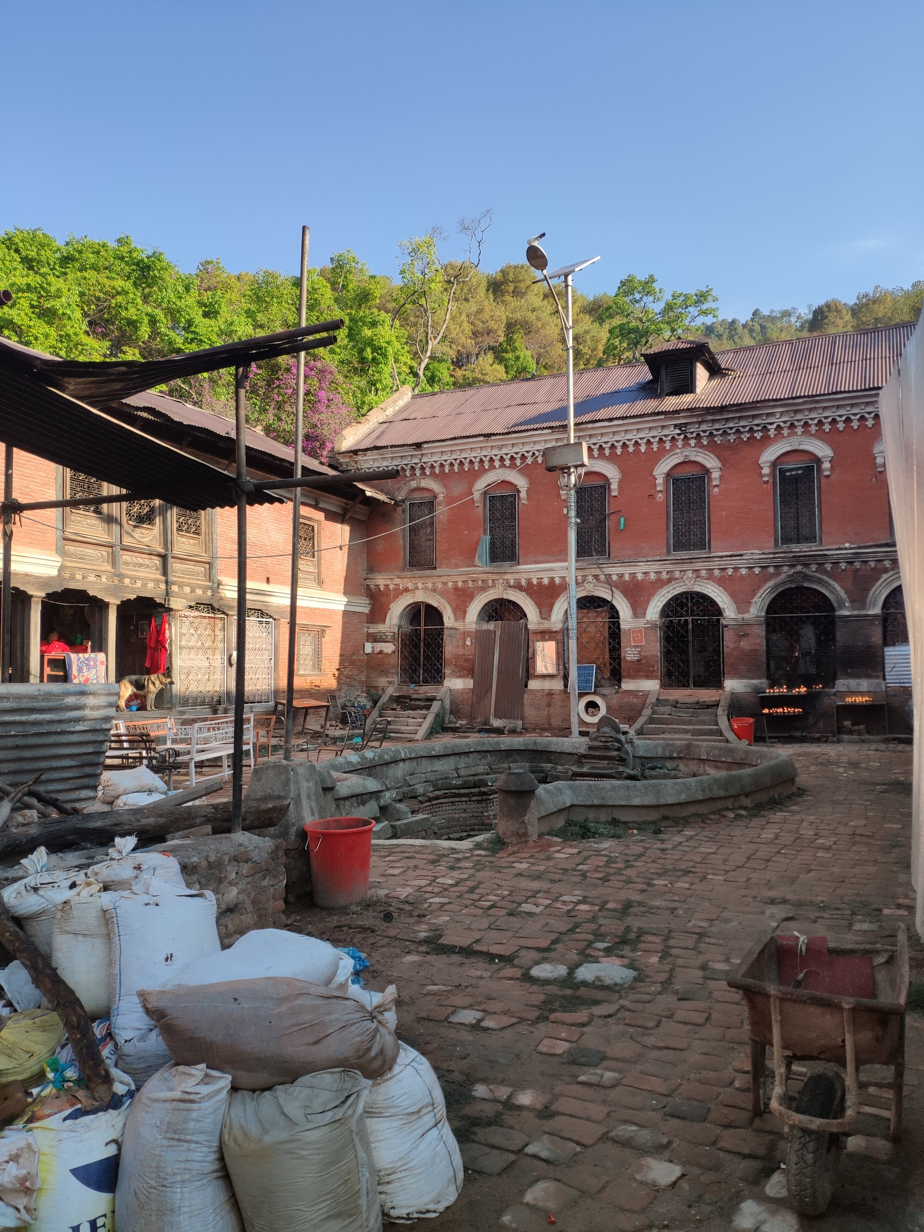 Reconstruction of residence of Mhwasukhwa Mhaju